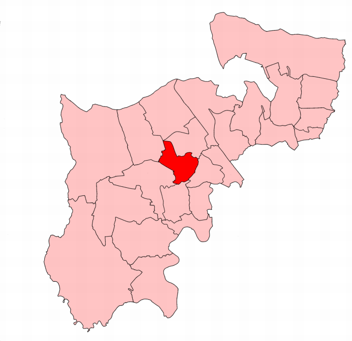 A map of Wembley South constituency within Middlesex, as it existed from 1945 to 1950.